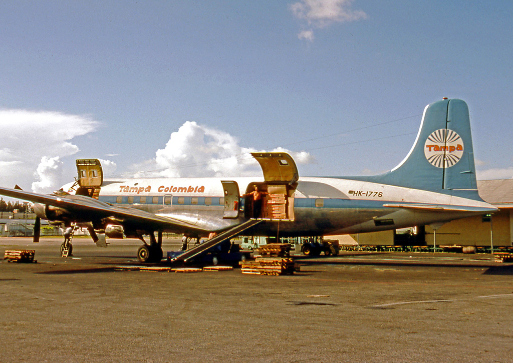 Douglas DC-6A freighter HK-1776 of Tampa Cargo Colombia at Miami International Airport in 1975